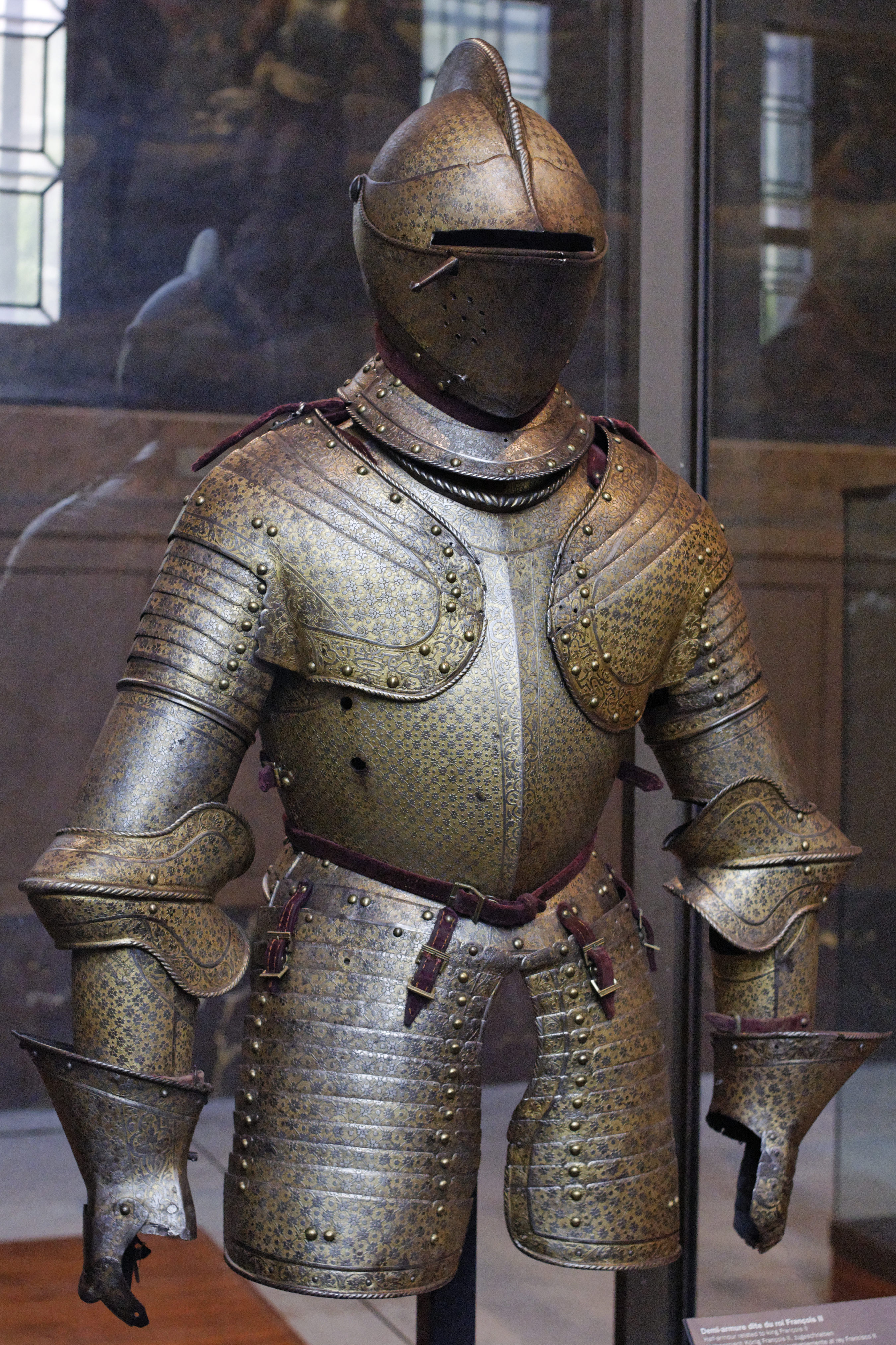 Half-armour related to king Francis II of France. French work.